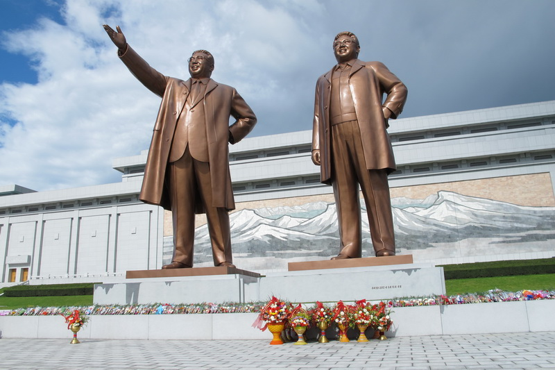 万寿台 Mansudae Grand Monument, Pyongyang